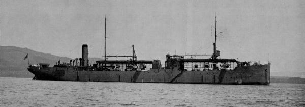 Japanese seaplane tender "Notoro" near Kure or at Setonaikai.